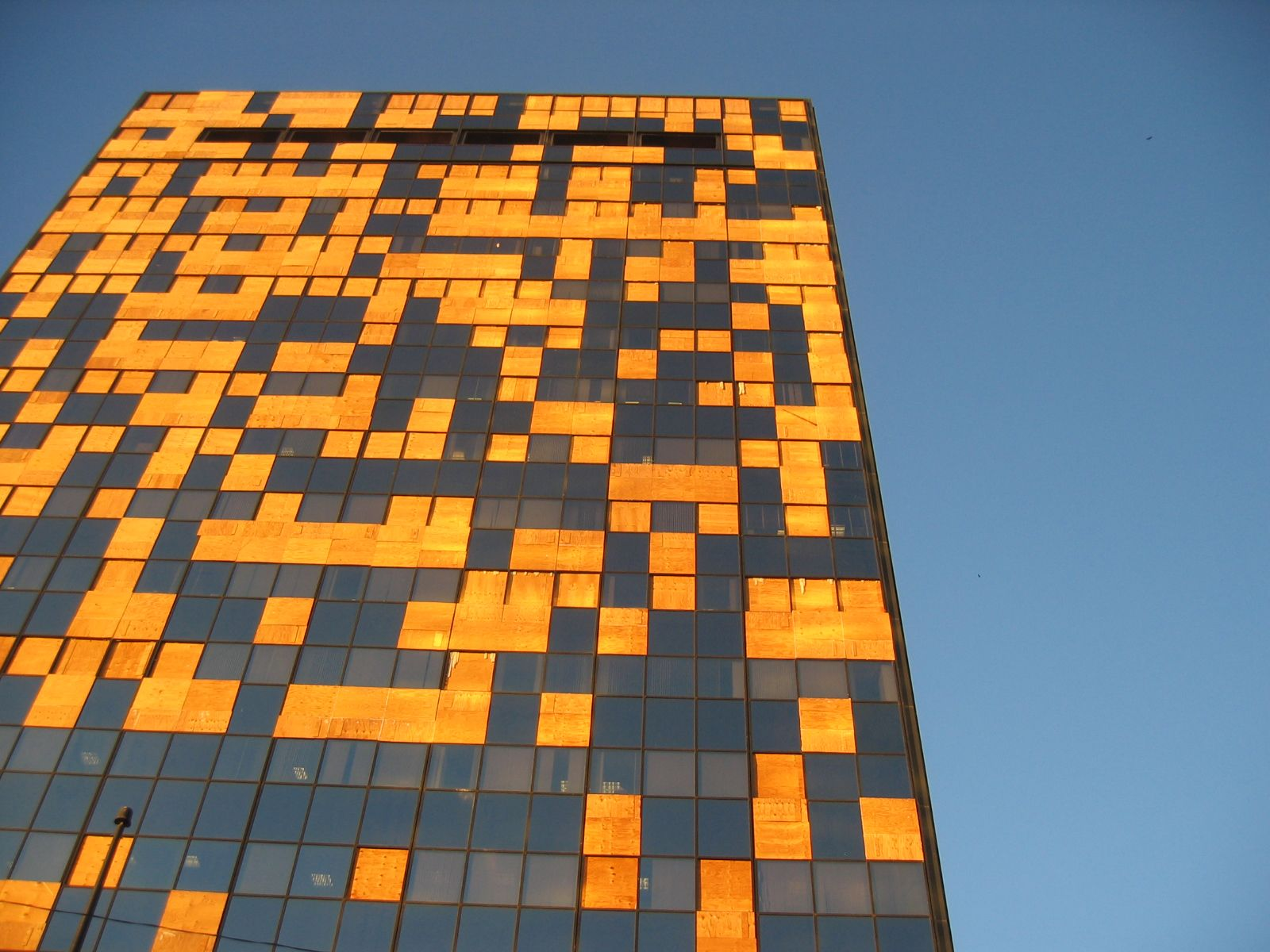 Colonial Bank building in Brickell, Miami after hurricane Wilma in November 2005.